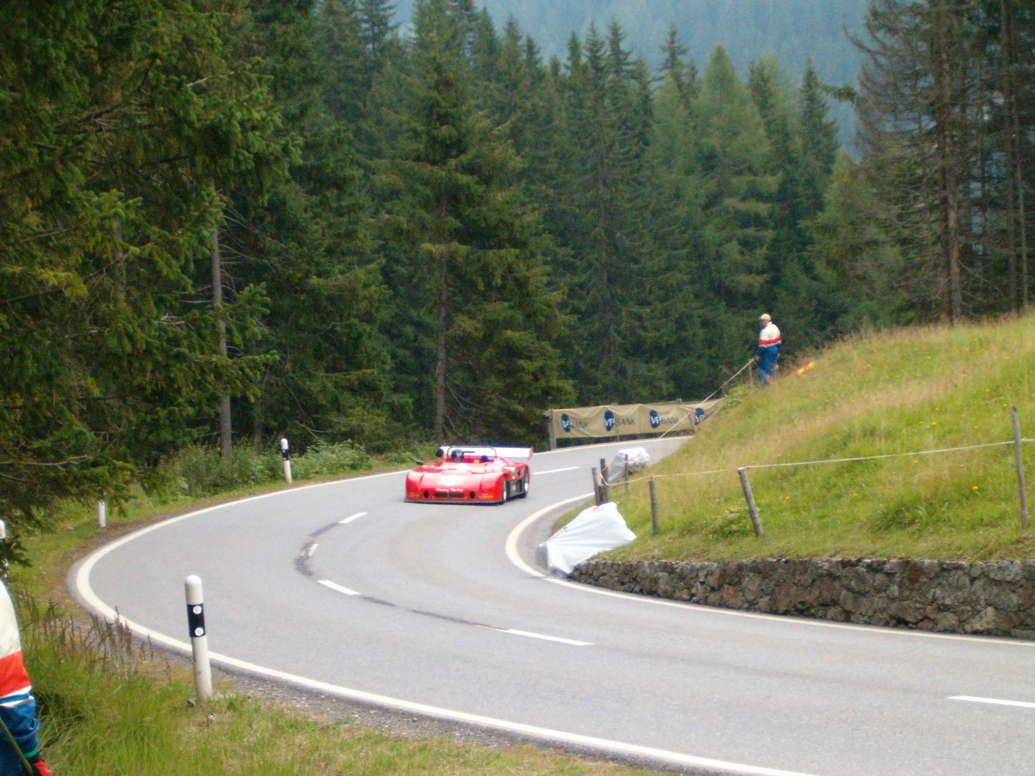 Arosa ClassicCar race on the Schanfiggerstrasse, Switzerland